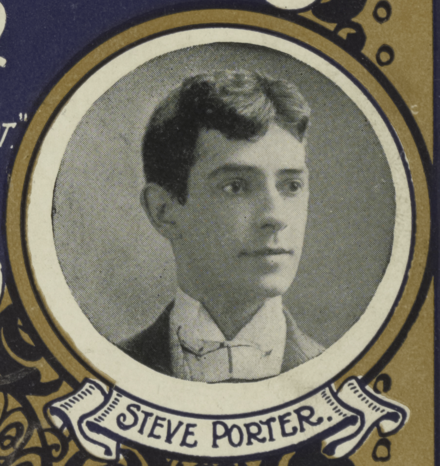 Portrait of singer and recording pioneer Steve Porter from 1898 sheet music.